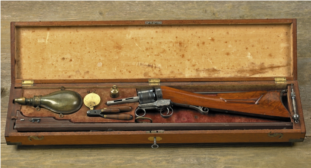 Cased Colt Paterson rifle